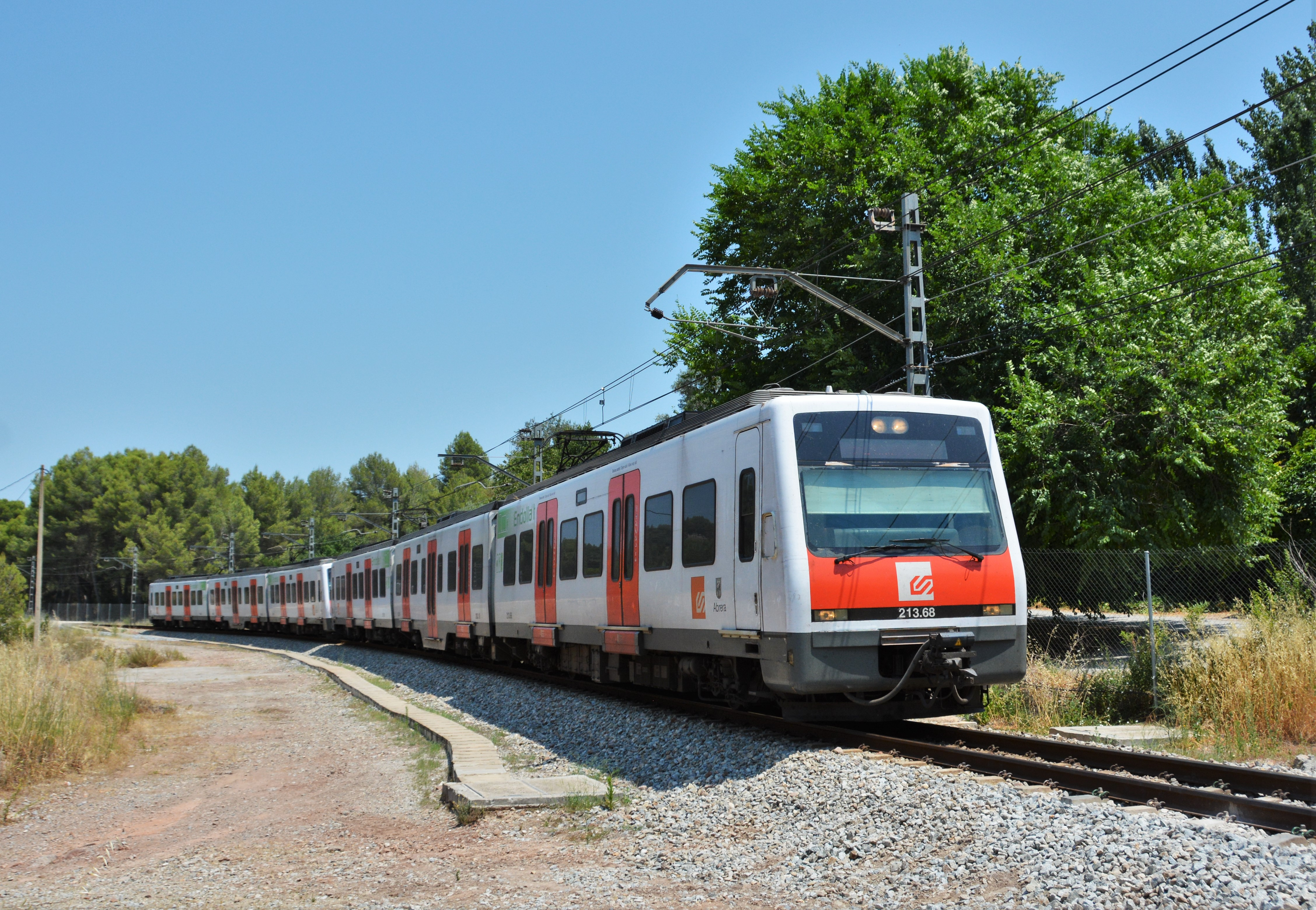 Arriving at the Monistrol de Montserrat station, the EMUs 213.18 and 213.08 working the N430 train from Manresa Baixador to Barcelona Plaça Espanya.